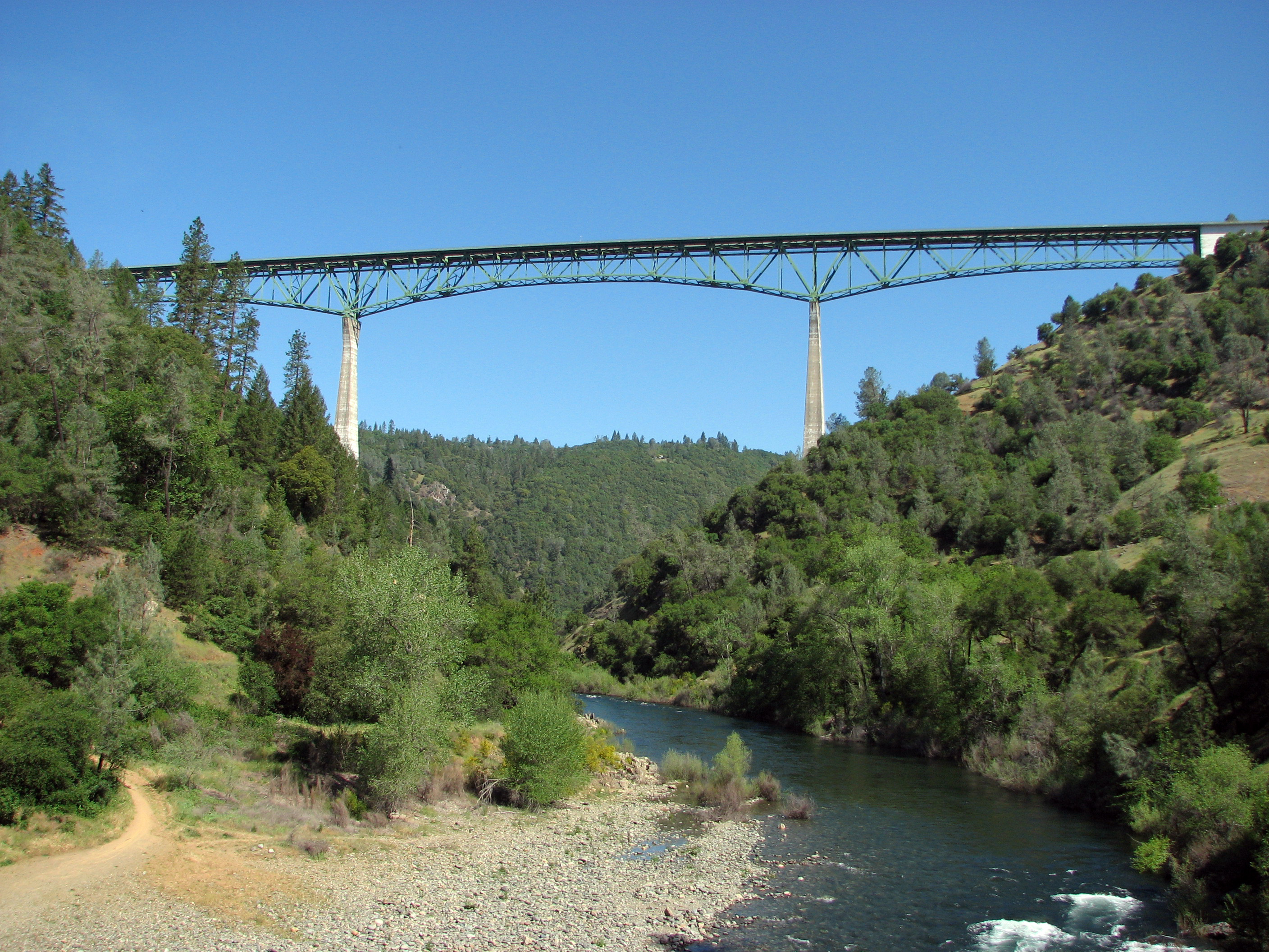 A digital photo of the southern face of the Auburn-Foresthill Bridge (also known as the Foresthill Bridge) taken from the confluence of the North and Middle Forks of the American River located within the Auburn State Recreation Area (near Auburn, California) on April 27, 2008 at 10:23:58 AM Pacific Daylight Time.